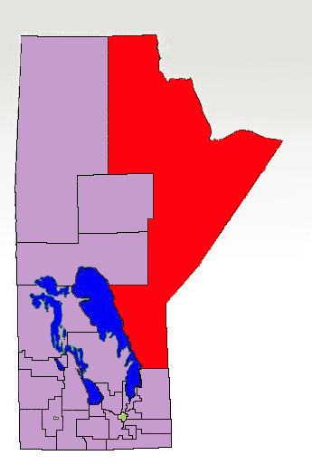 The 1998-2011 boundaries for the Rupertsland electoral district highlighted in red